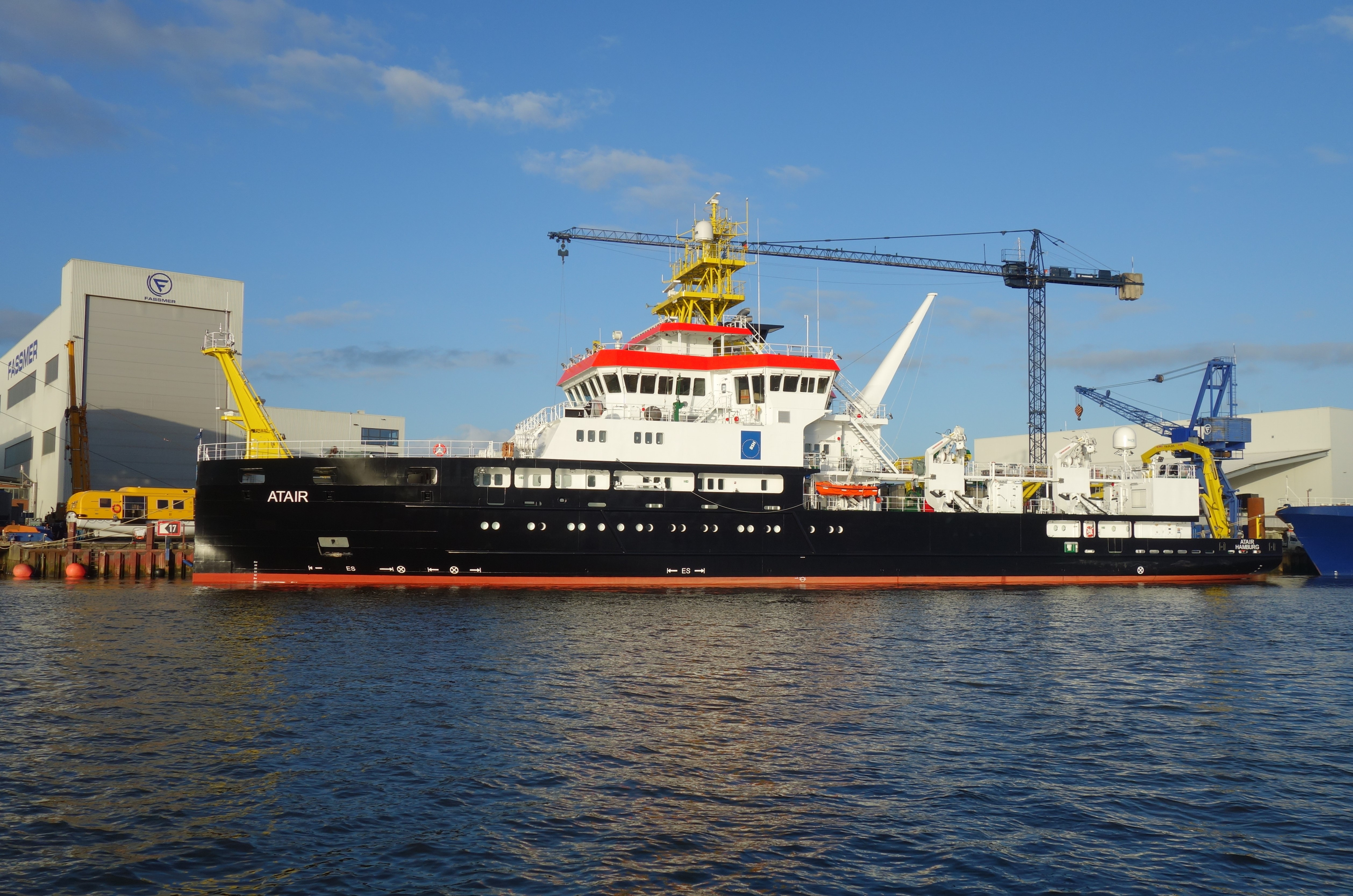 The new Atair under final completion at Fassmer shipyard